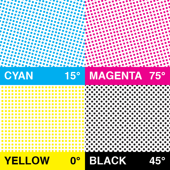 CMYK rasters